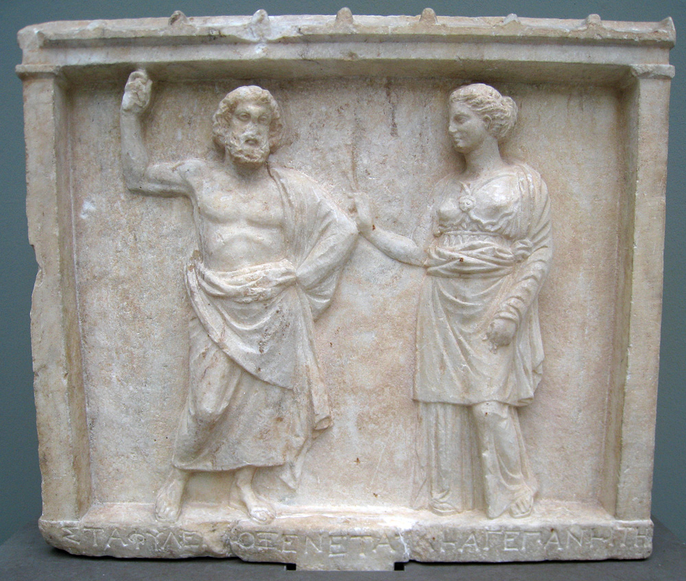 Marble relief of the 4th century BC from Thrace, depicting the grape god Staphylus in a small temple accompanied by Athena, representing the donor, an Athenian. From the collection of the Ny Carlsberg Glyptotek. Item number IN 2345.